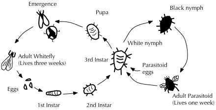 Diagram illustrating the life cycles of Greenhouse whitefly and its parasitoid wasp Encarsia formosa. Wasp inserts its egg into a whitefly larva that has reached its third developmental stage, egg hatches and the young wasp larva eats the whitefly nymph from within. Unparasitized whitefly gives rise to second generation adults. Revised by PMcM on 15 September, 2004 based on existing image.